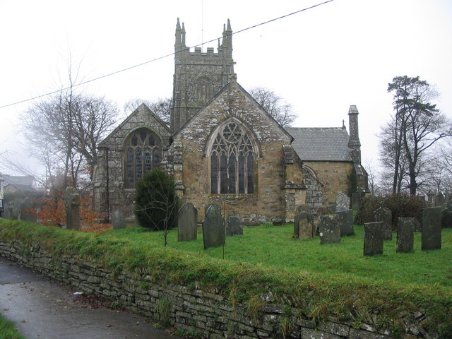 Choir and transepts of St Ive Parish Church in St Ive, Cornwall. The church was constructed c. 1338 and was modernized in the 19th century. The church is probably dedicated to St Ive (also called St Ivo), a supposedly Persian bishop whose body was found in St Ives, Huntingdonshire. See Nicholas Orme: The Saints of Cornwall, Oxford University Press, ISBN 0-19-820765-4, p. 148–149. Original description by Phil Williams: A view looking west to the church at St.Ive Church End.